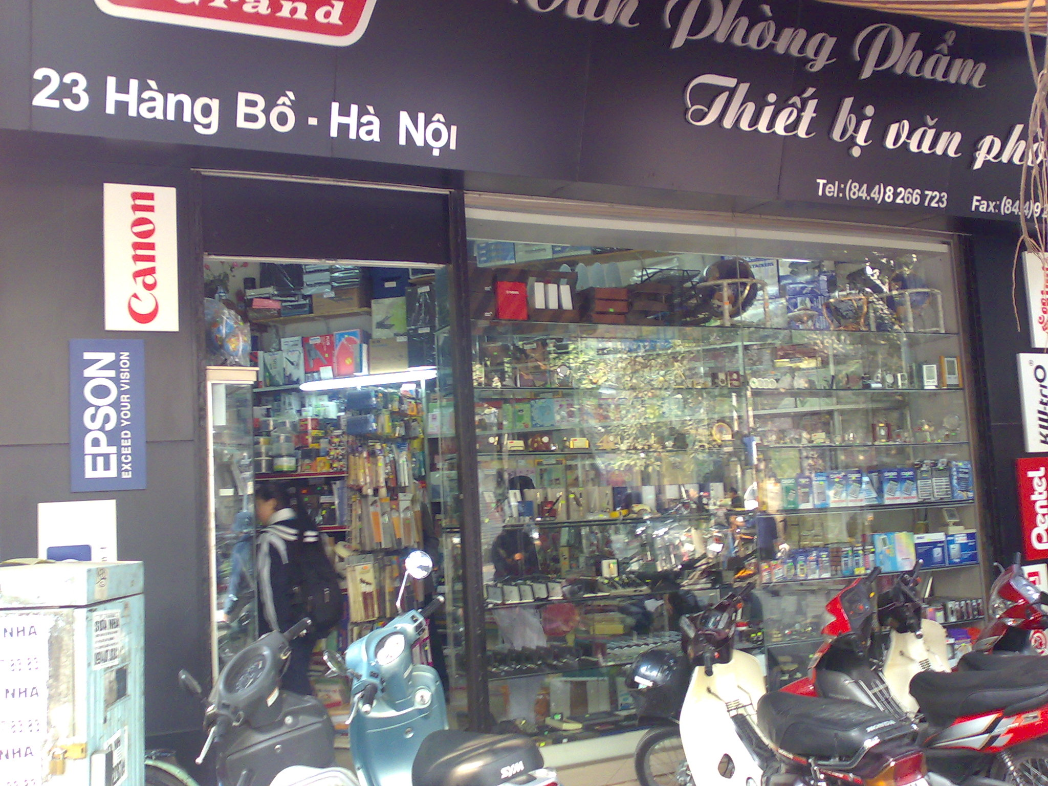 Out side of a stationery shop in Hà Nội